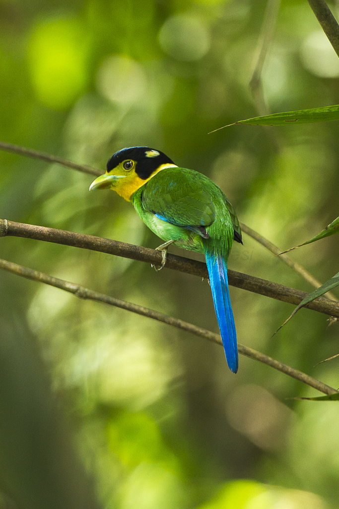 Long-tailed Broadbill - Kang Kra Chan NP - Thailand_S4E4808